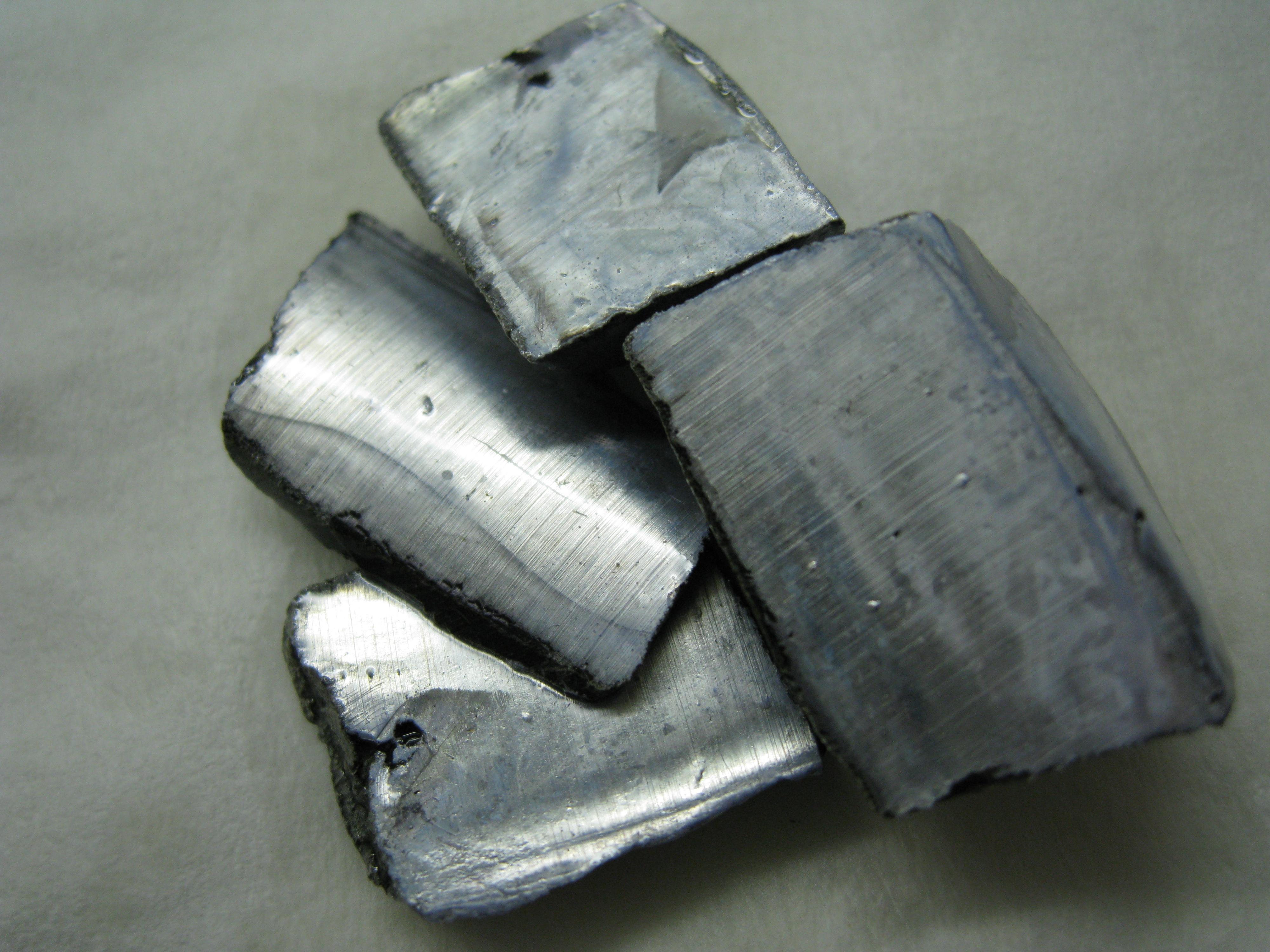 Cut Potassium pieces from Dennis s.k collection.